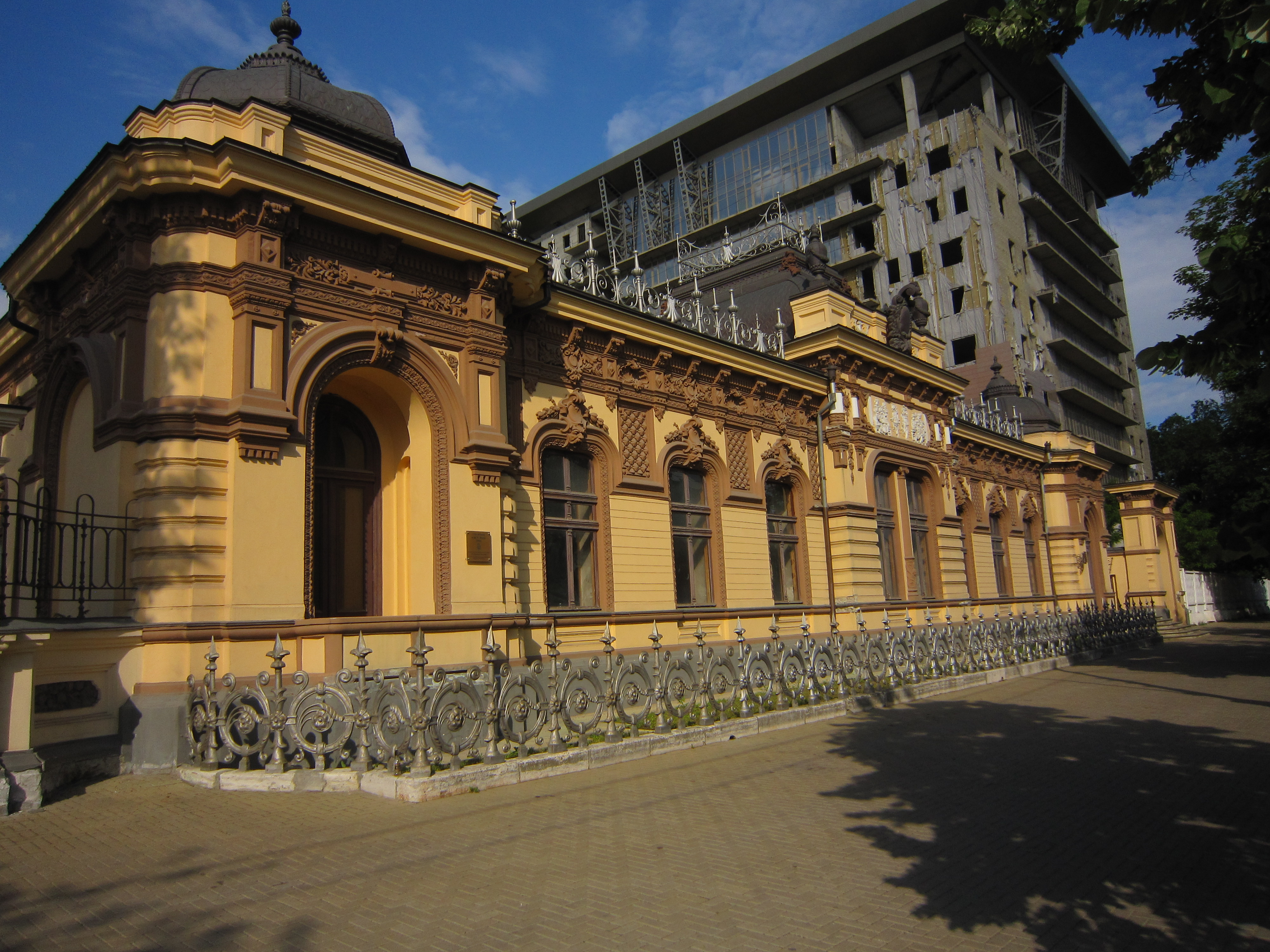 Building in Chișinău